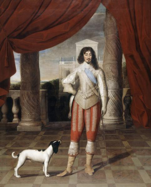 This painting has traditionally been ascribed to Ferdinand Elle. There were three generations of portrait painters named Ferdinand Elle, they are: Ferdinand Elle the Elder (about 1585-about 1640); his son Louis Elle, (called Ferdinand Elle or Louis Le Père 1612-1689) and his son Ferdinand Elle (also called Louis Le Fils 1648-1717). They all specialised as portraitists in the courtly style. The first two deployed a late Mannerist style dependent on the formulaic examples of Frans Pourbus the Younger (1569-1622), Louis' style being differentiated from that of his father by the occasional use of poses borrowed from Van Dyck. Although the dates of the Ferdinand Elle with which this painting has been associated are those of Louis Elle, it is more likely, given the subject of the two portraits at Chiswick, that they are the work of Ferdinand Elle the Elder or his studio. At an early age the painter of Flemish descent travelled to Paris, here he became court painter to Louis XIII (1601-1643) and is reputed to have been the teacher of Nicolas Poussin. The two paintings given to Ferdinand Elle at Chiswick are, as Horace Walpole described them in 1760 of 'Louis XIII & Anne of Austria his Queen, whole lengths'. Their attribution to Ferdinand Elle the Elder could then correspond to Dodsley's confused attribution of 1761 to 'Fred. Elde' presumably intending Ferdinand the Elder. Louis XIII was the son of Henry IV and Marie de'Medici, during most of his reign (1610-1643) royal power was either in the hands of his mother as regent or of Cardinal Richelieu.